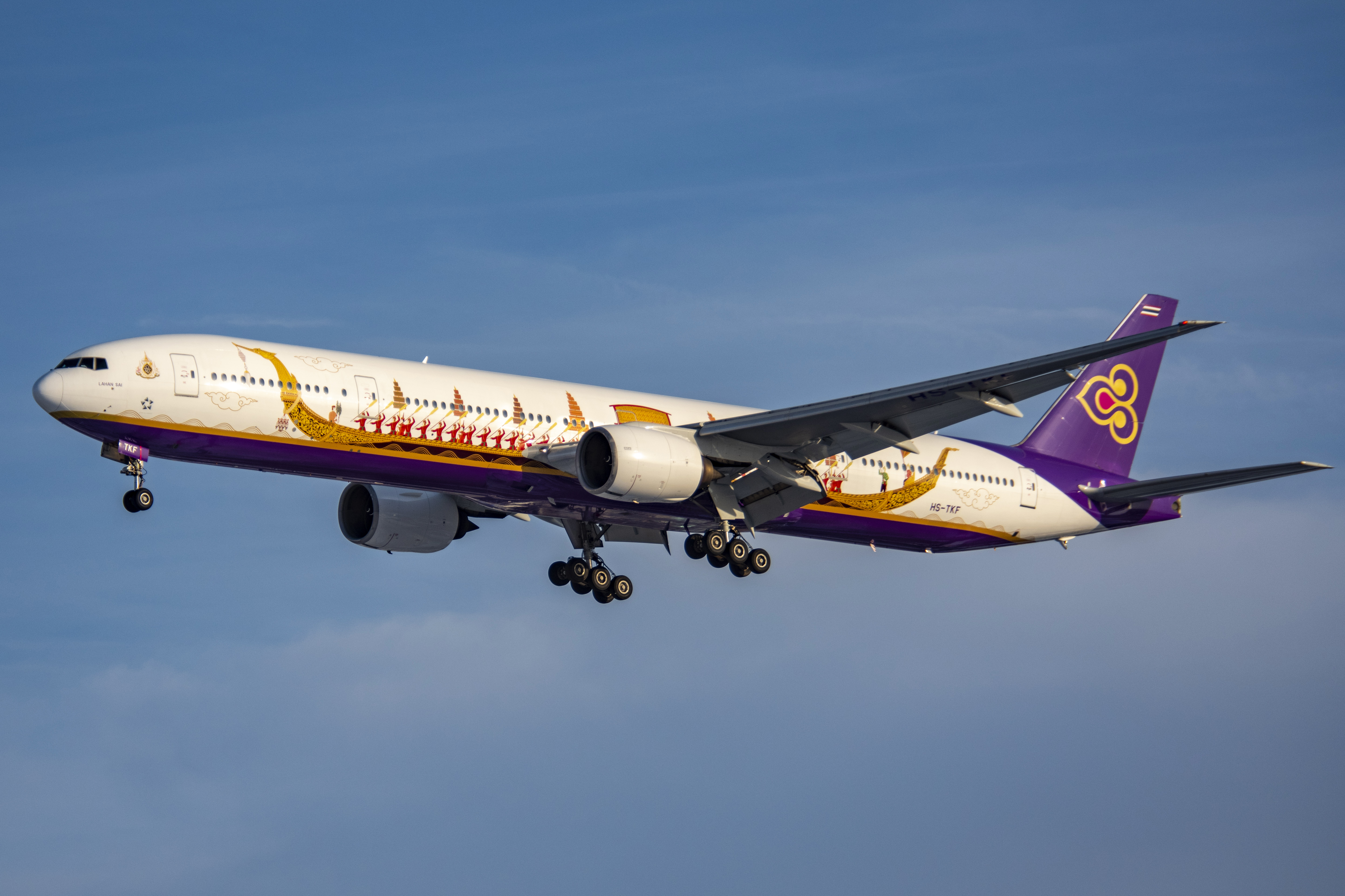 Thai 614 from Bangkok - a royal barge is approaching after the first snow of 2019/20.